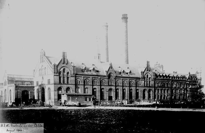 Power plant "Bille", Hamburgischen Electricitäts Werke , August 1900